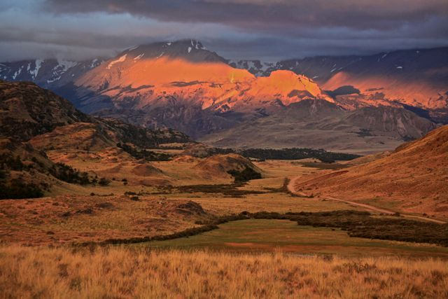 sunset